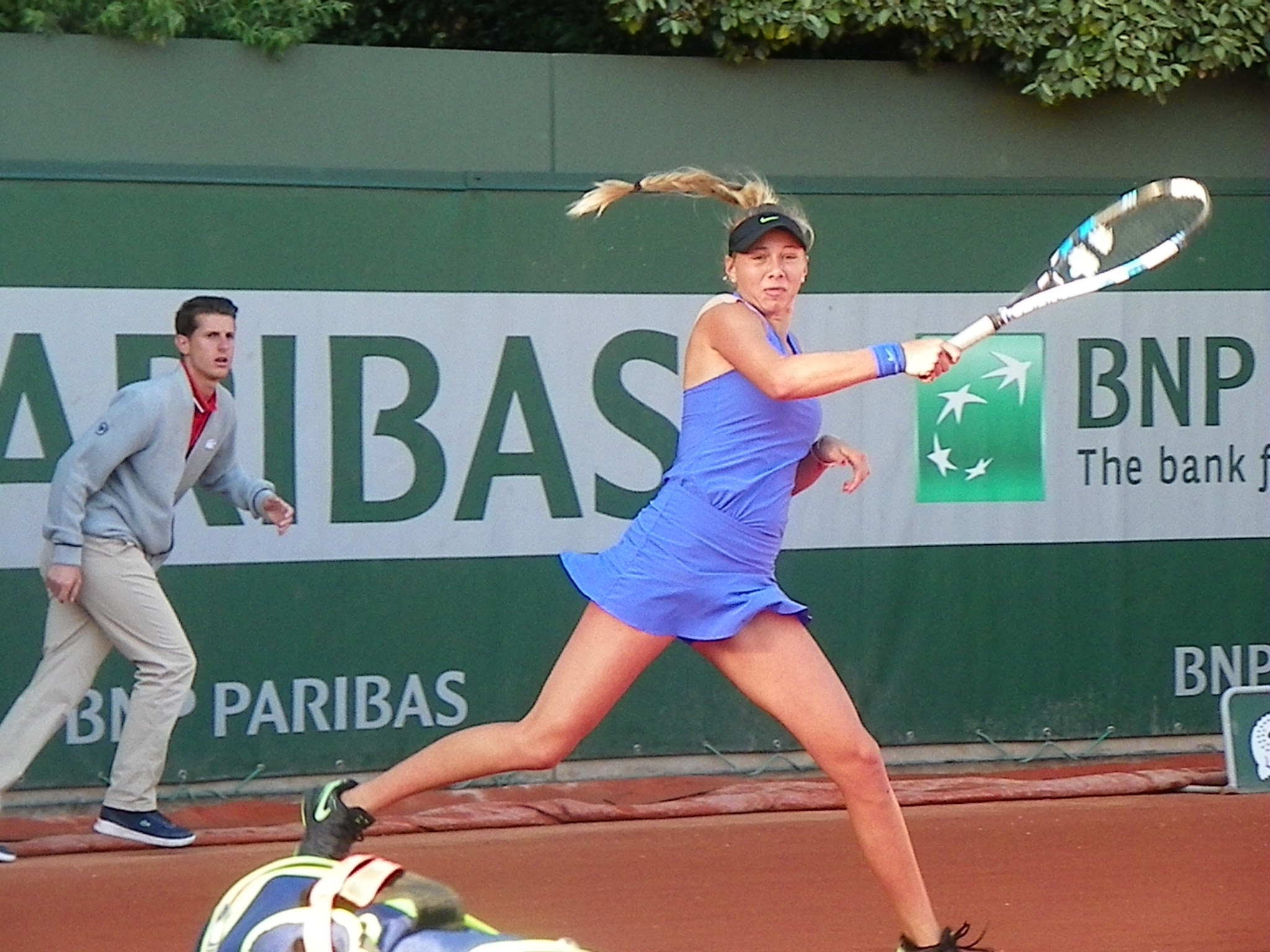 Amanda Anisimova at 2017 French Open